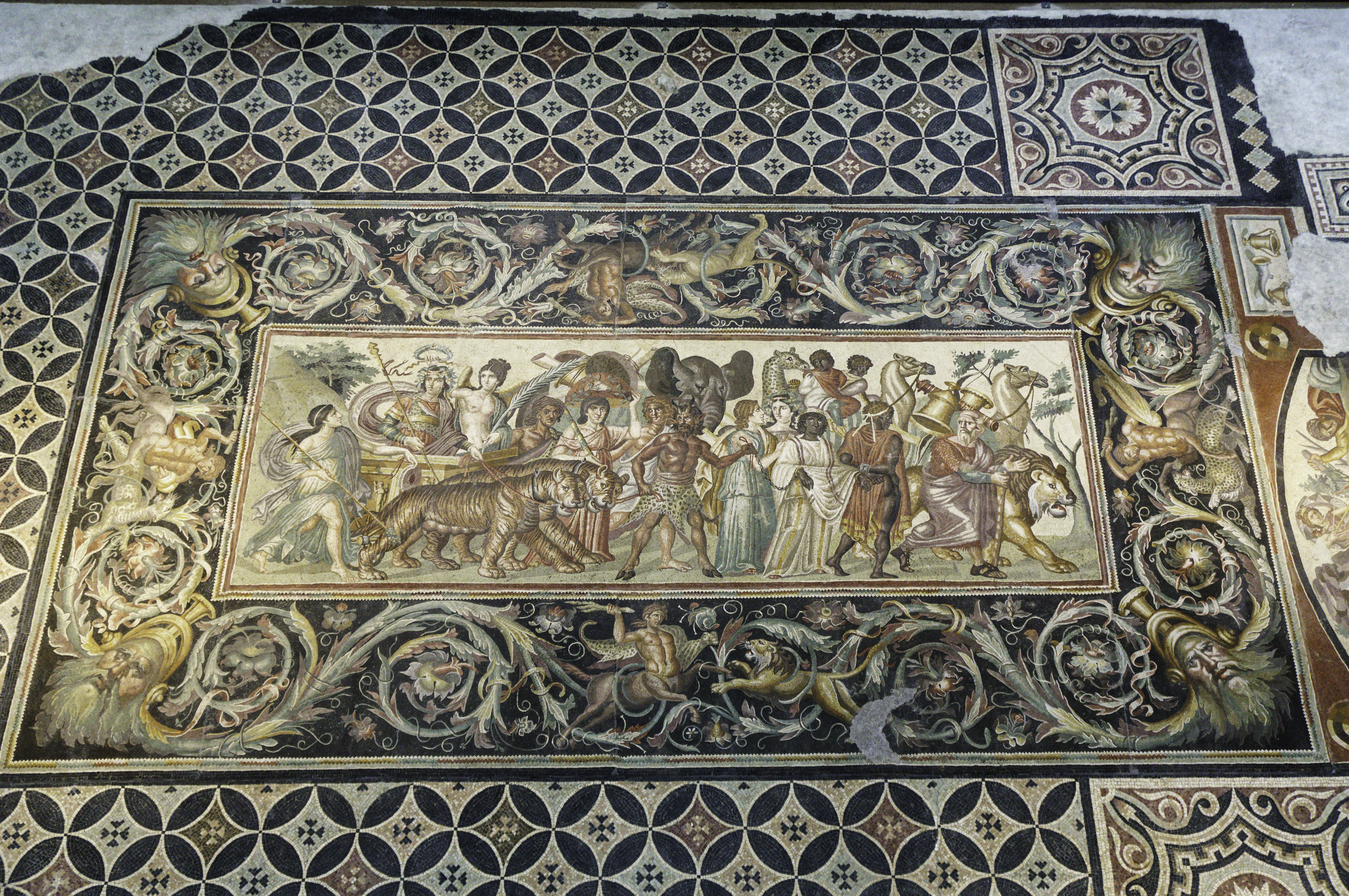 The Conquest of India by Dionysus - Sétif